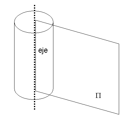 A typical example of physical problem with axisymmetry around an axis. All the planes like this one in the figure are identical or have the same properties in an axisymmetric situation.